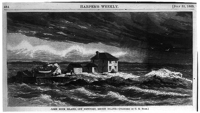 Lime Rock Island, Rhode Island in 1869 Harper's Weekly